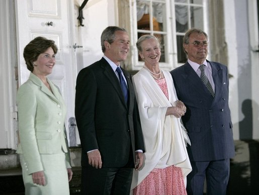 Queen Margrethe II and her husband Prince Henrik of Denmark welcome President George W. Bush and his wife Bush at Fredensborg Palace, July 5 2005.